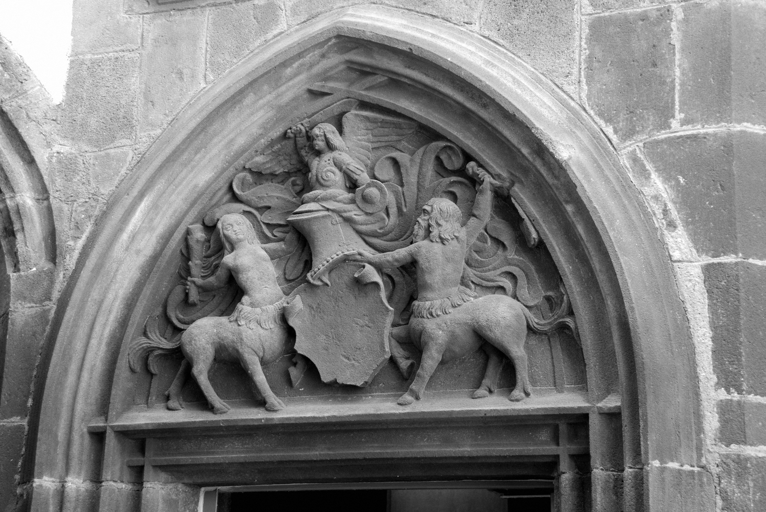 Montferrand: the Centaur door at the hôtel d'Albiat, un male centaur and a female centaur attack an angel (Puy-de-Dôme, France).